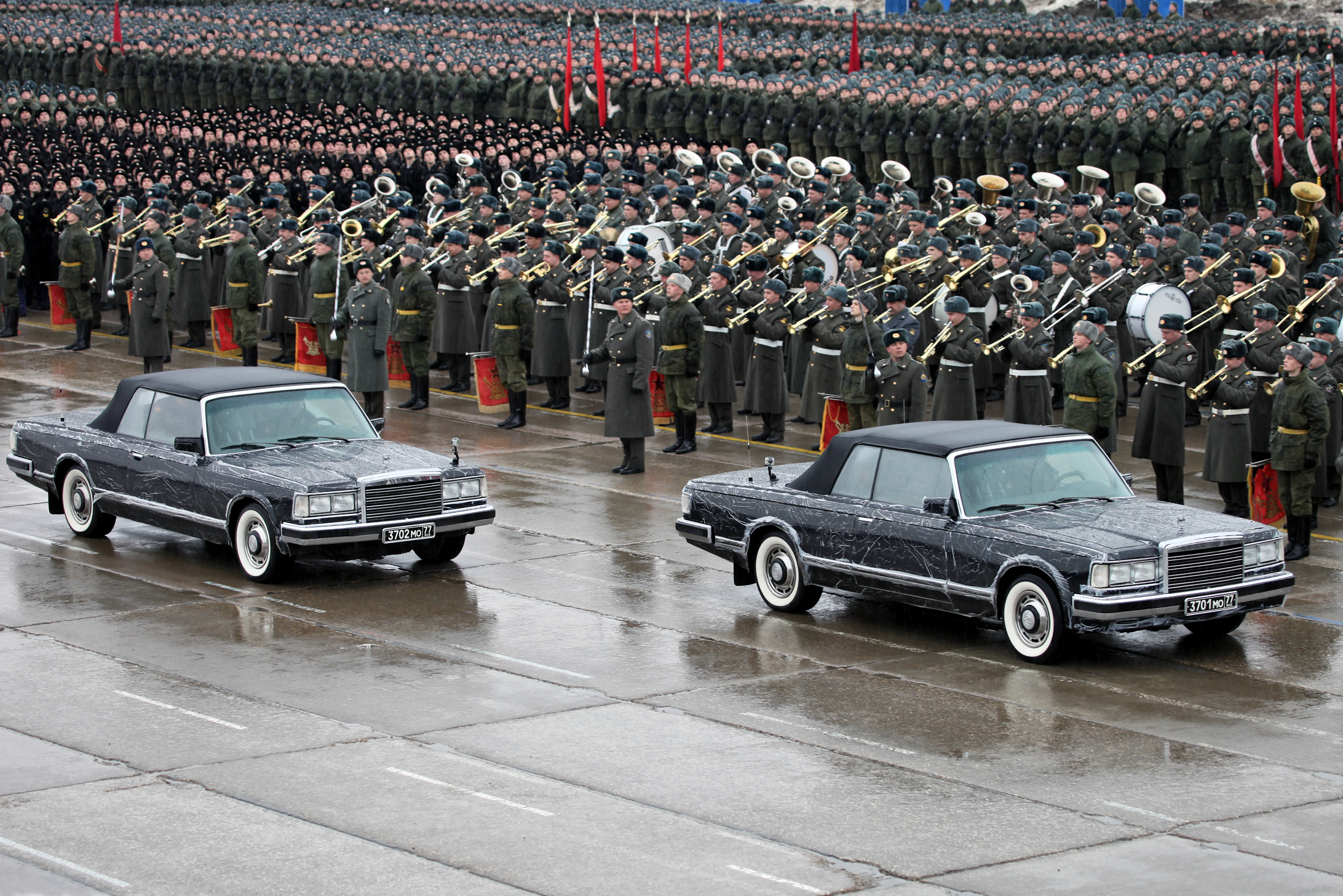 Rehearsal of Victory Day Parade